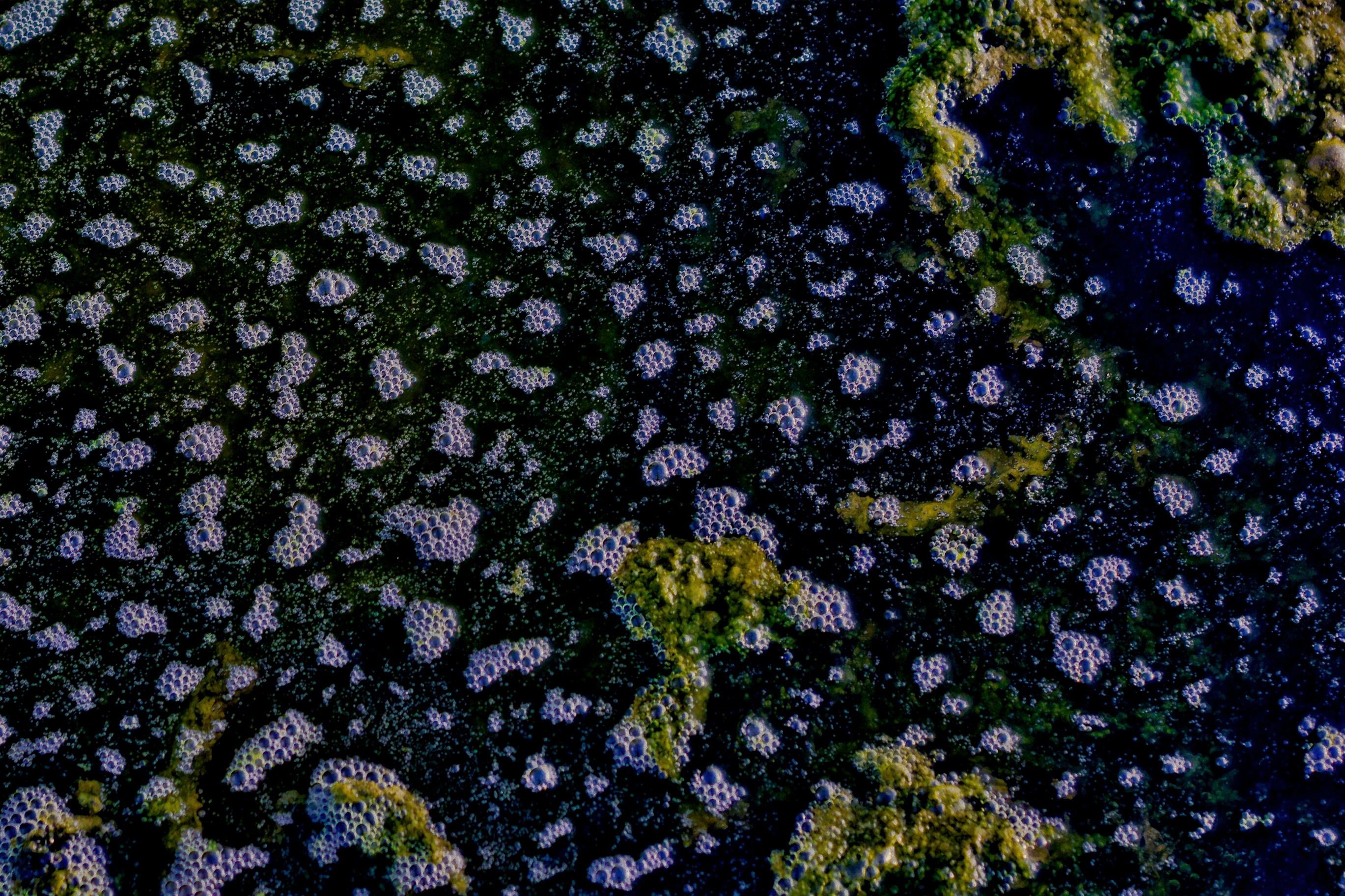 Vesicles with marsh gas on swamp water near Dzita (Volta Region, Ghana).